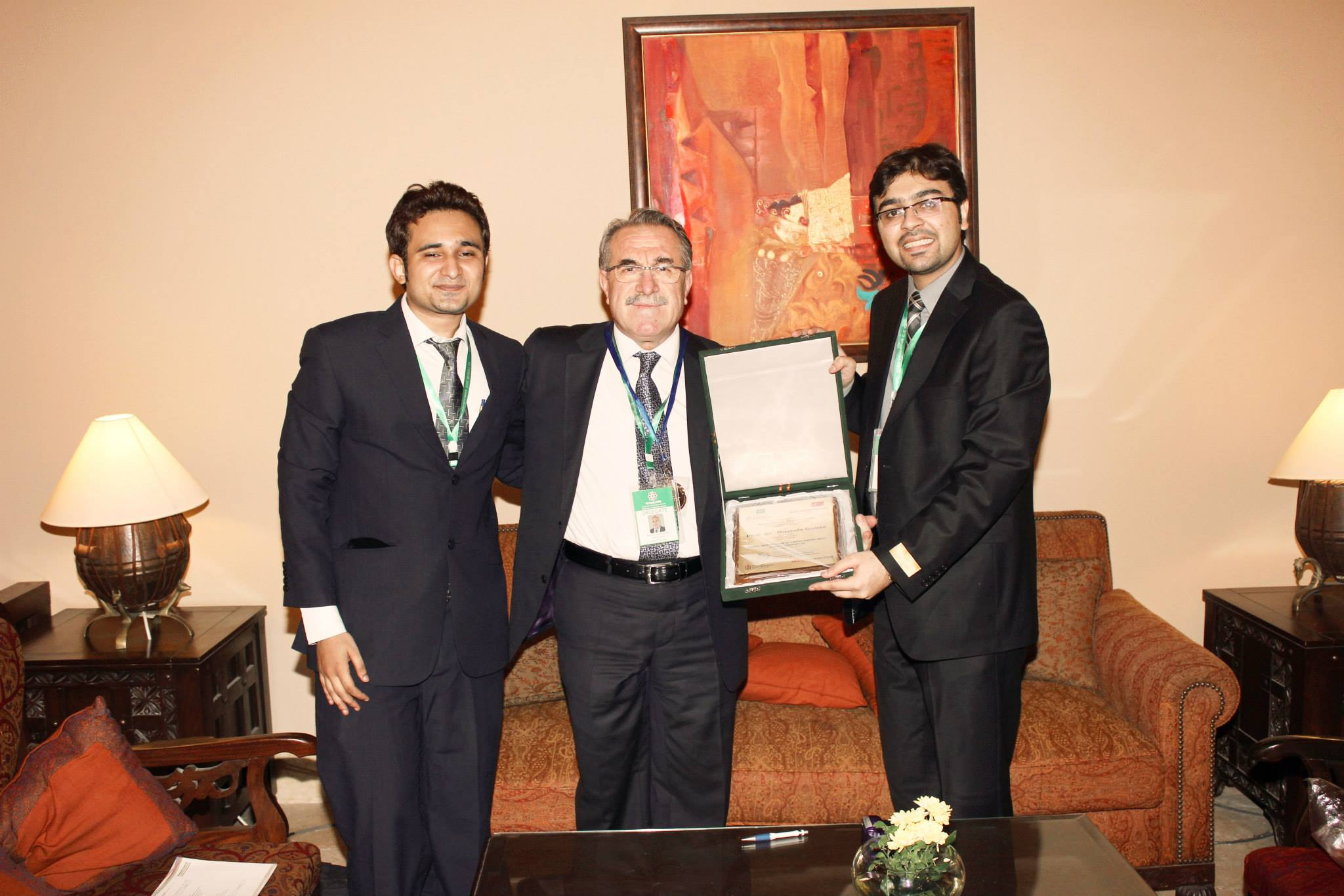 Dr. Mustafa GÜNEŞ, Rector of Gediz Üniversitesi, Turkey along with Vice Chancellor of Indus University during MoU Signing Ceremony